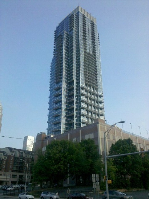 The Vue, Charlotte, NC